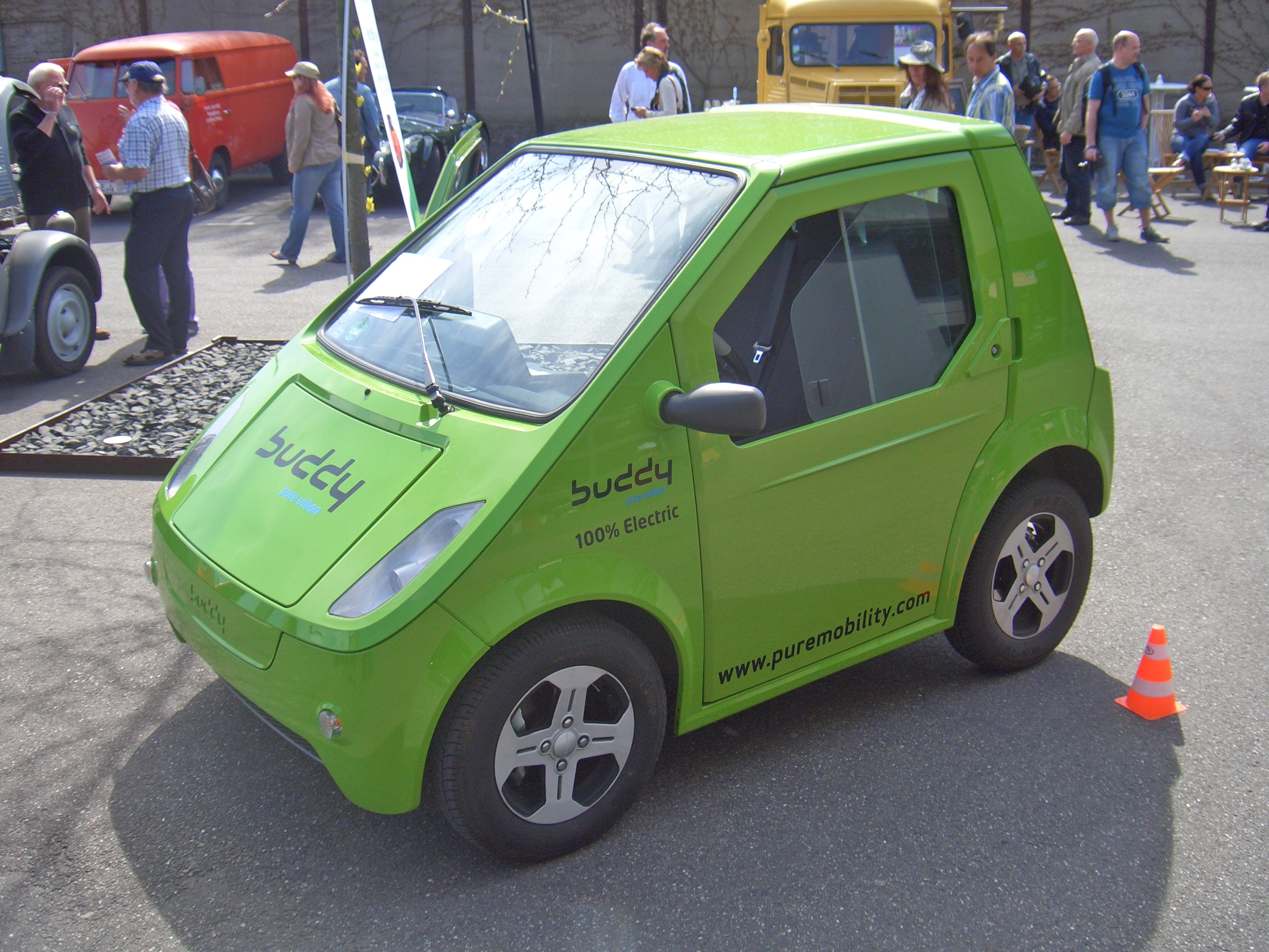 Pure Mobility Buddy, electric vehicle, 2010 model, seen at CLASSIC REMISE, Düsseldorf, Germany